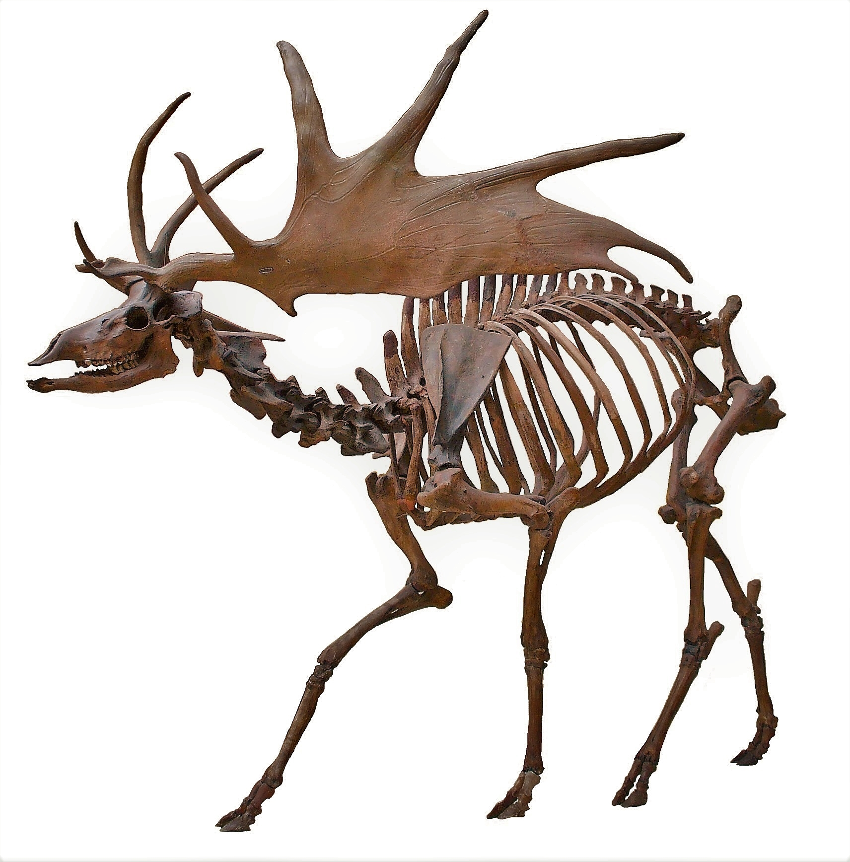 Irish elk (Megaloceros giganteus), skeleton